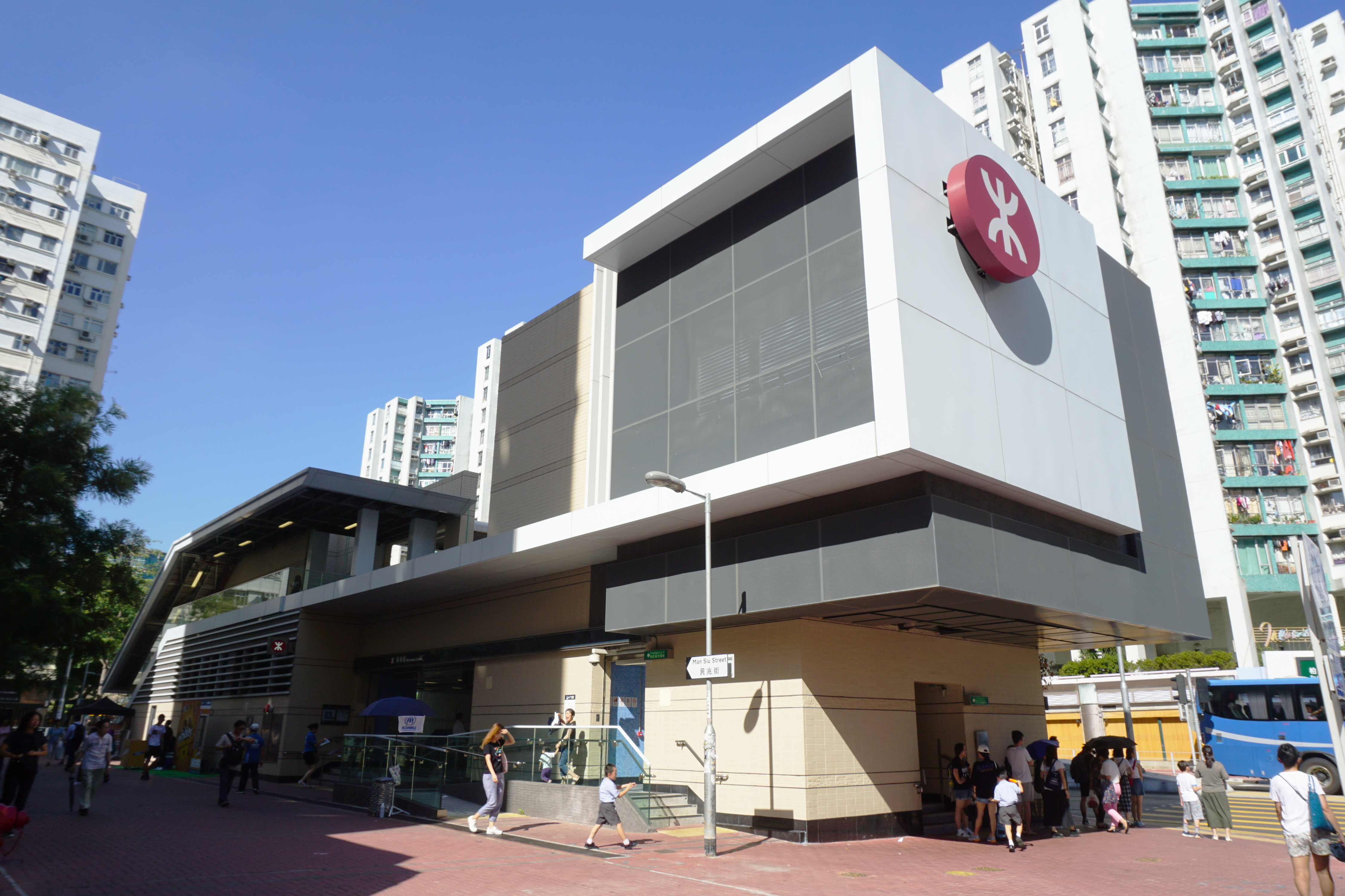 Whampoa Station in Hung Hom, Hong Kong.